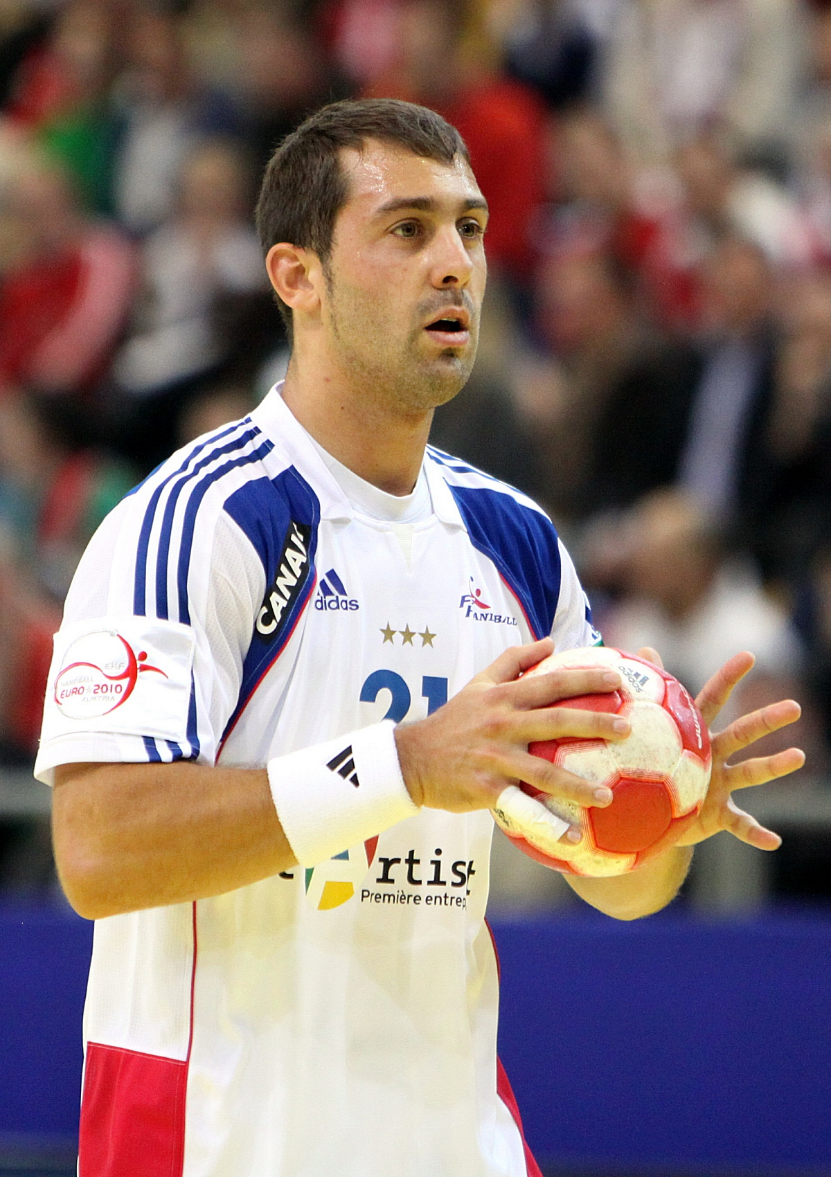 Michaël Guigou (Montpellier HB), France national handball team